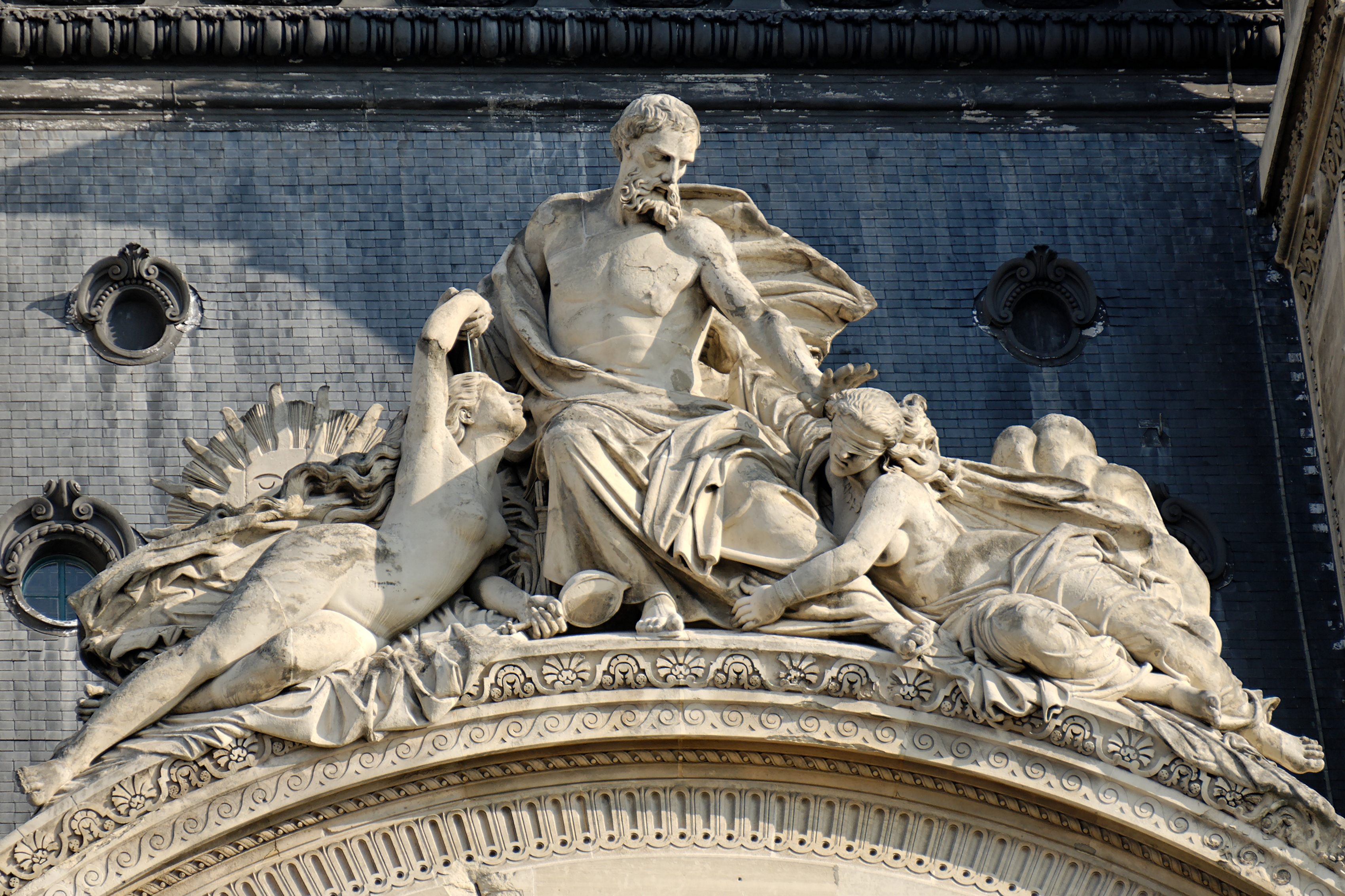 Allegorical scene by Jean-Marie Bonnassieux (1810–1892). Pediment of the Pavillon de Marsan, facing the Tuileries, Palais du Louvre.